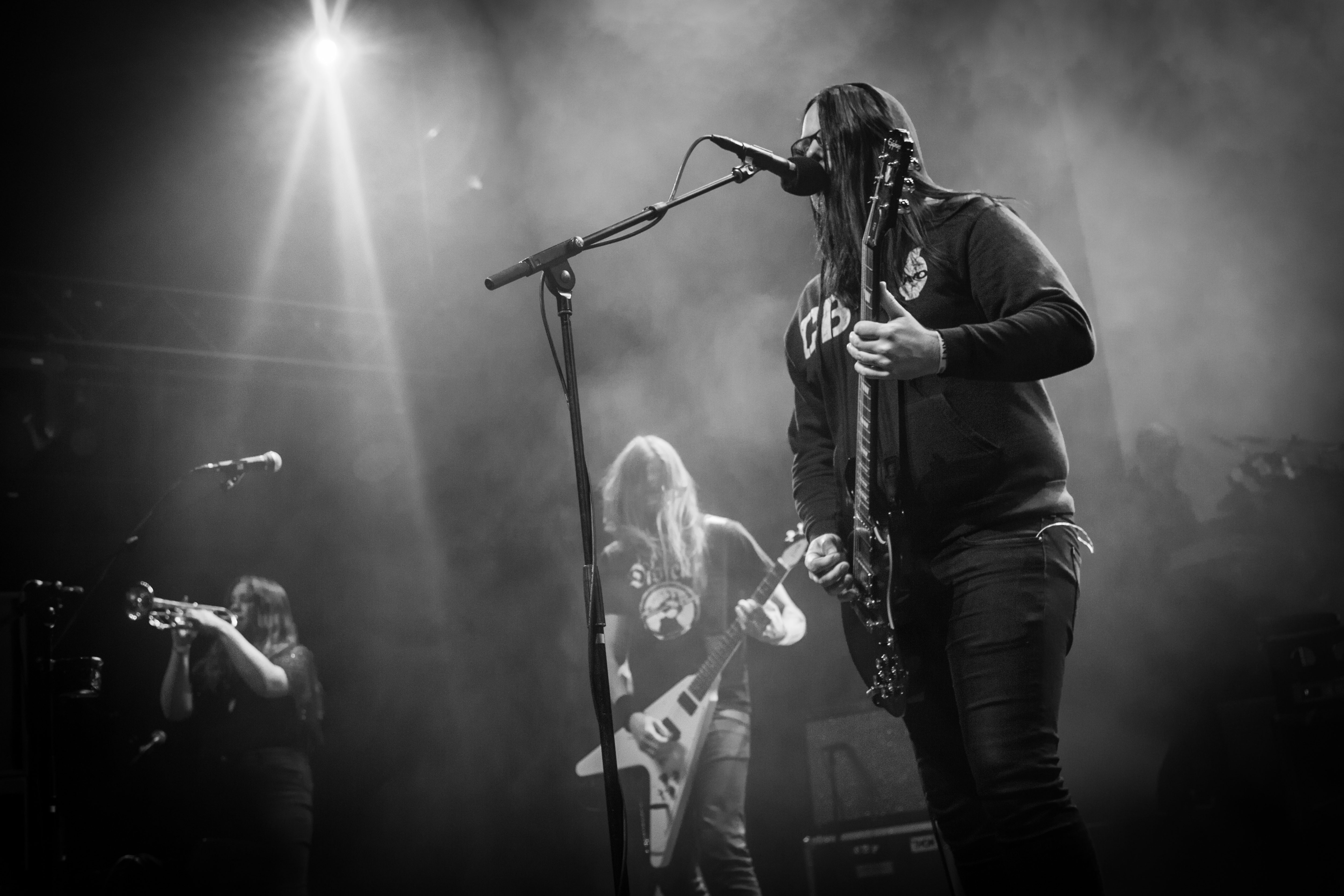 Crippled Black Phoenix live at Roadburn Festival, Tilburg, April 2017